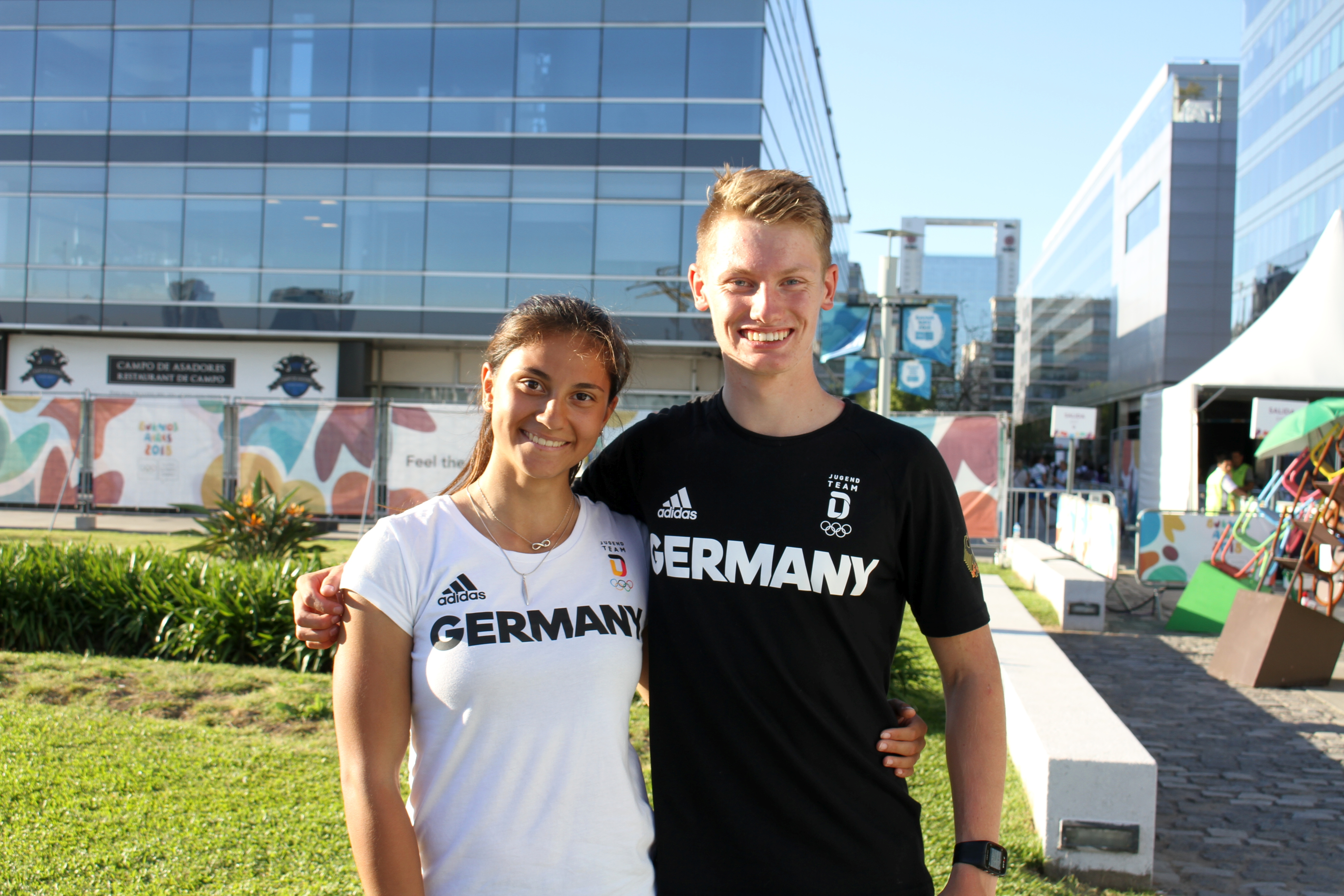 Canoeing at the 2018 Summer Youth Olympics at 16 October 2018 – german team